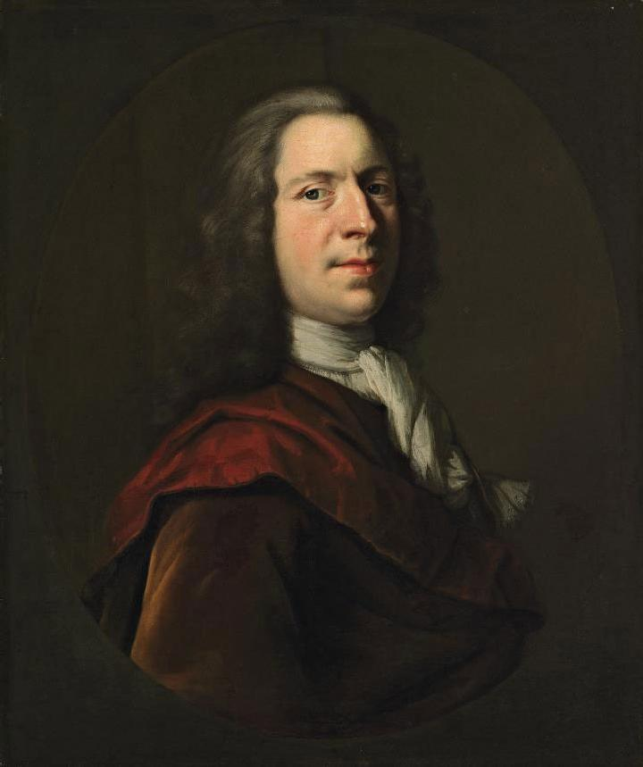 Portrait of Heroman van der Myn by Anna van Hannover - according to a piece of paper on the back stating she painted him when he stayed at St. James's to paint her picture; for years incorrectly labelled a self-portrait of Ven der Mijn